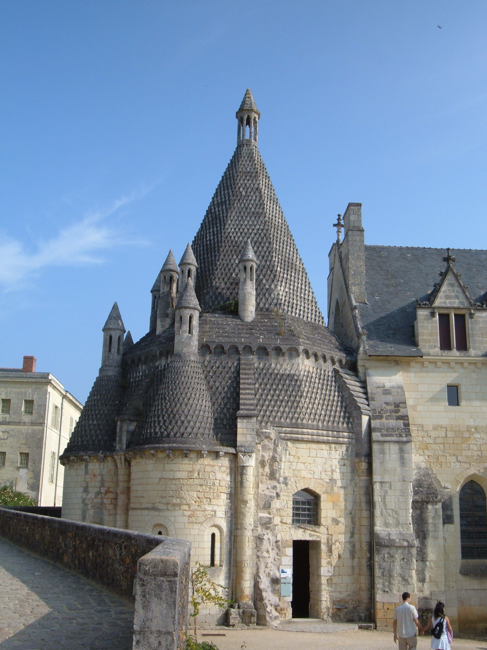 The kitchen of Fontevraud Abbey, Fontevraud-l'Abbaye, Anjou, France.